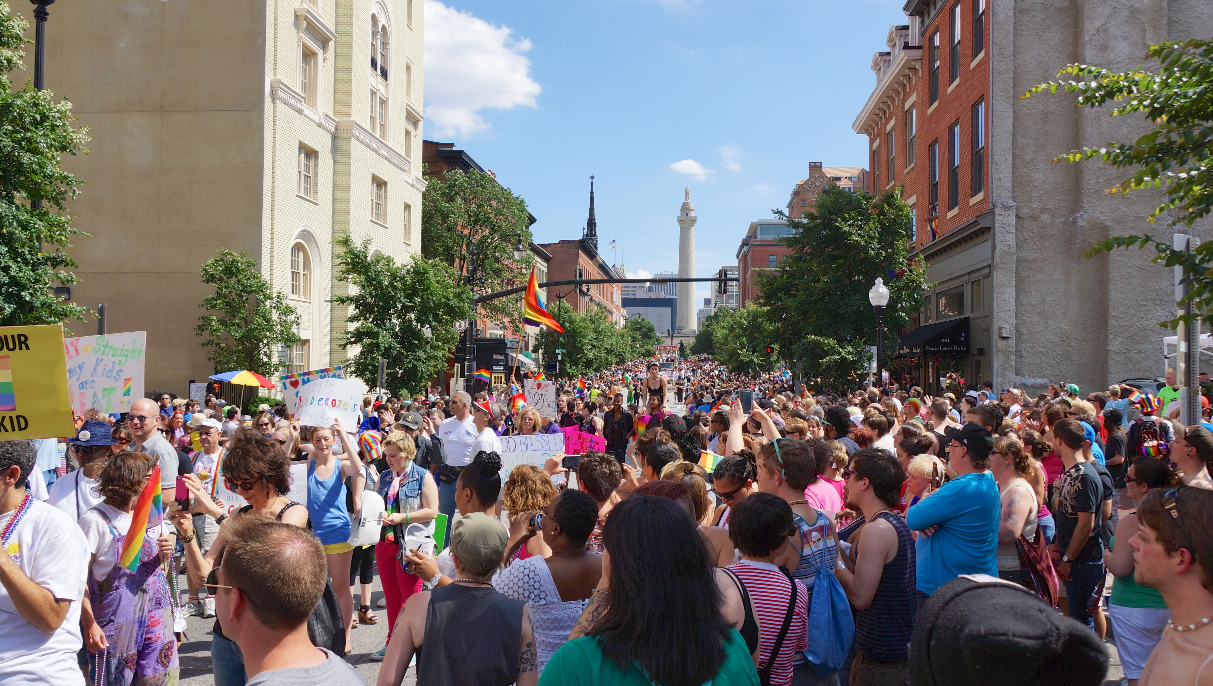 2013.06.16 Baltimore Pride